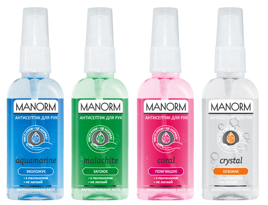 A picture of different types of Manorm hand sanitizers